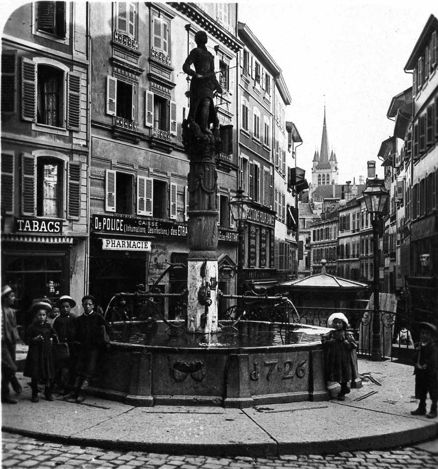 Fontaine de la Justice at the Place de la Palud, Lausanne, Switzerland.